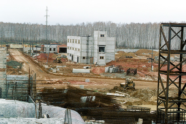 Fissile Material Storage Facility (FMSF). Looking at the south side of the main Administration Building and security building of the storage facility. Mayak, Russia. From the US Army corps of engineers.